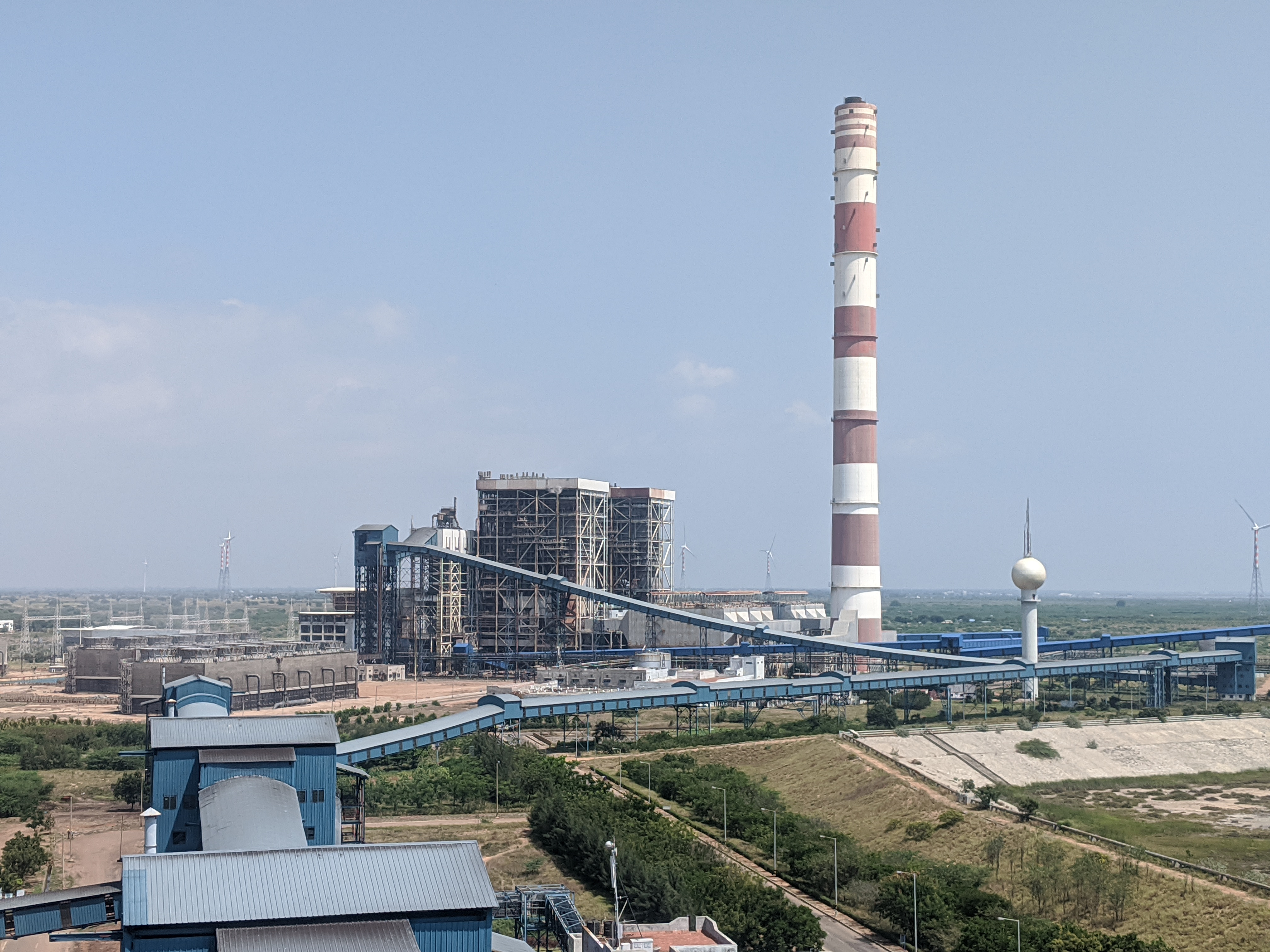 2*600 MW Coal-fired thermal power station